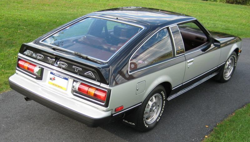 May 1981 production MY 1981 Toyota Supra Sport Performance Package